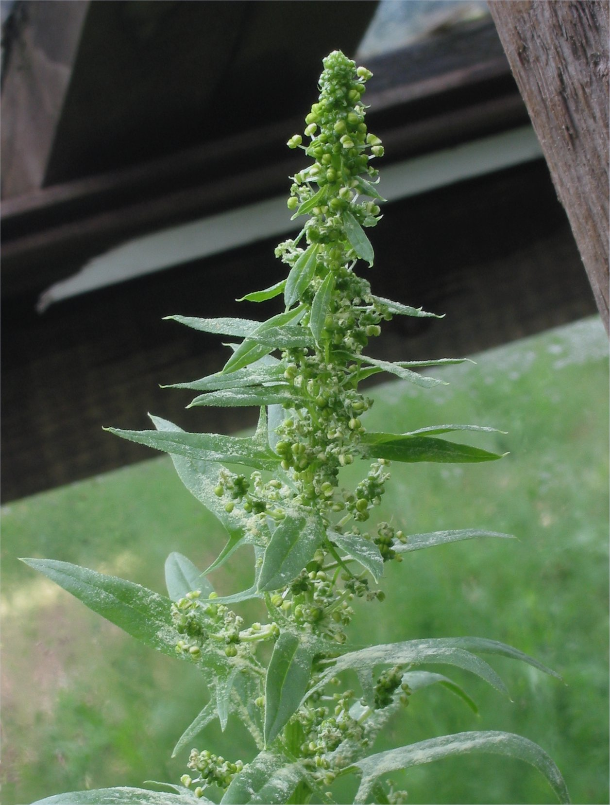 Spinacia oleracea inflorescens